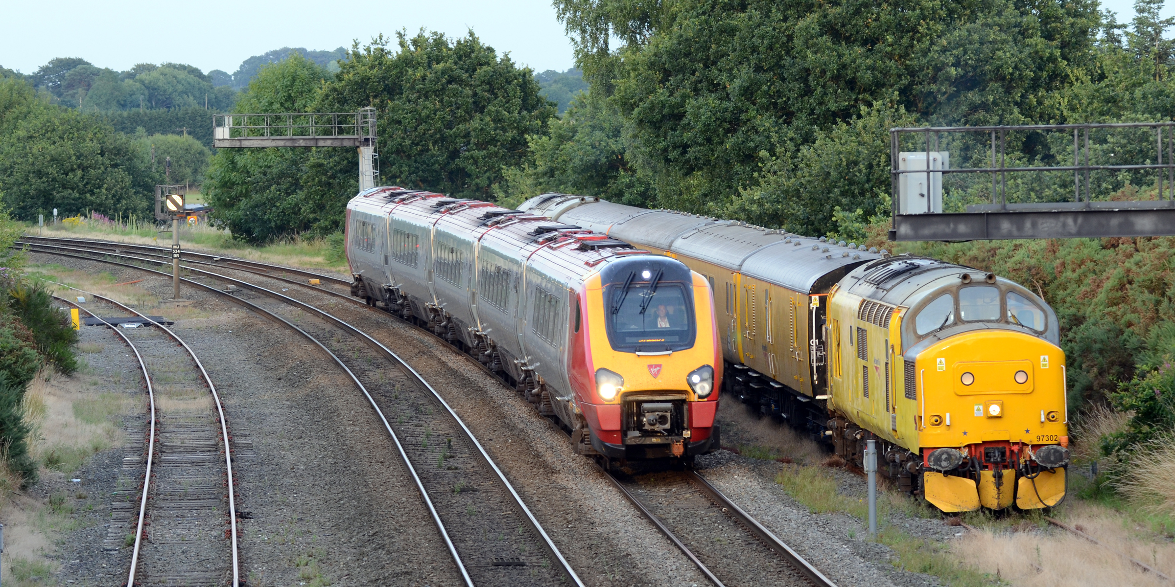 A Virgin Voyager working between London Euston and Shrewsbury passes a Network Rail measurement train (headed by 97302). The measurement train is in the Cosford loop waiting for a path west.